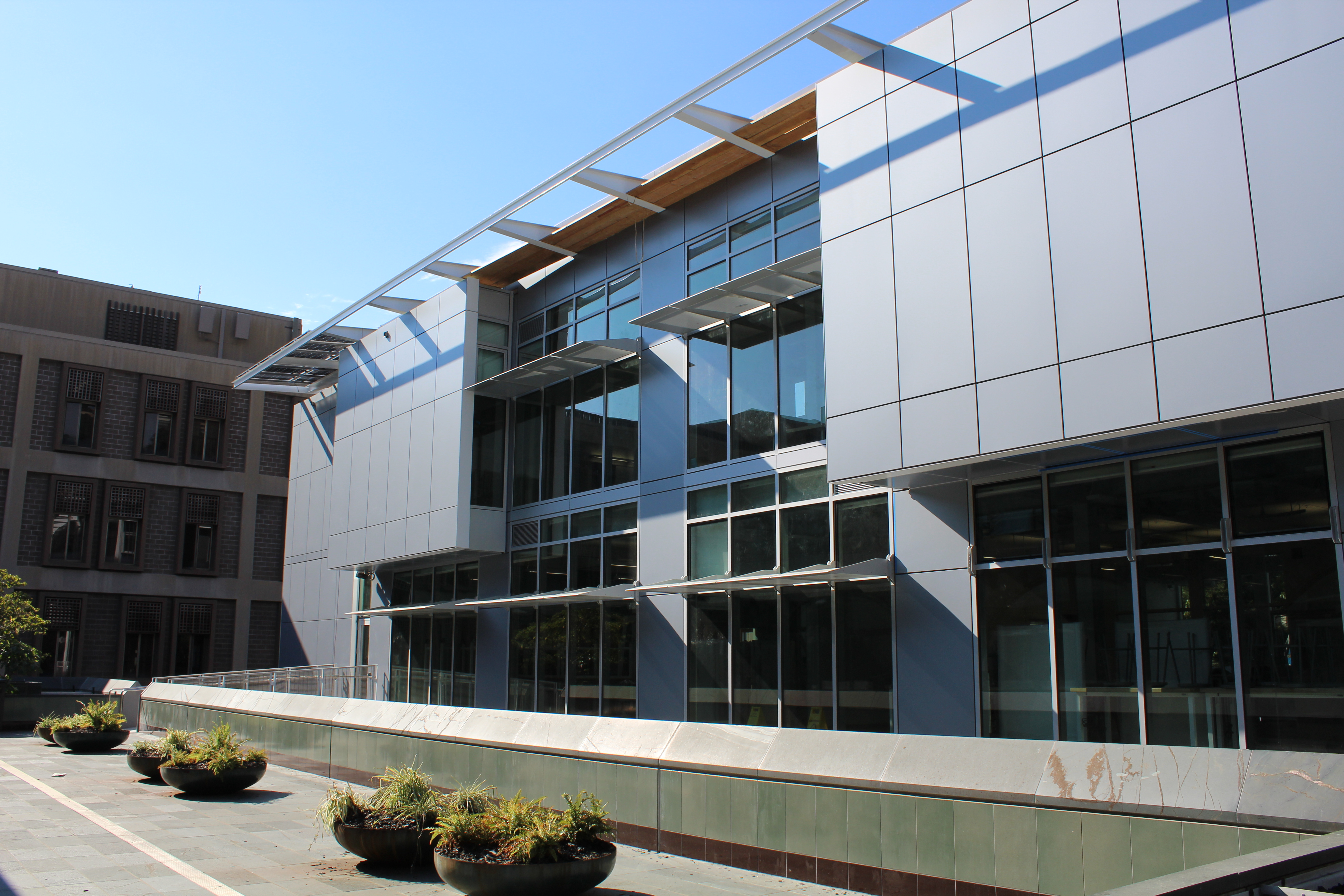 Jacobs' Hall as seen from outside the Woz lounge.